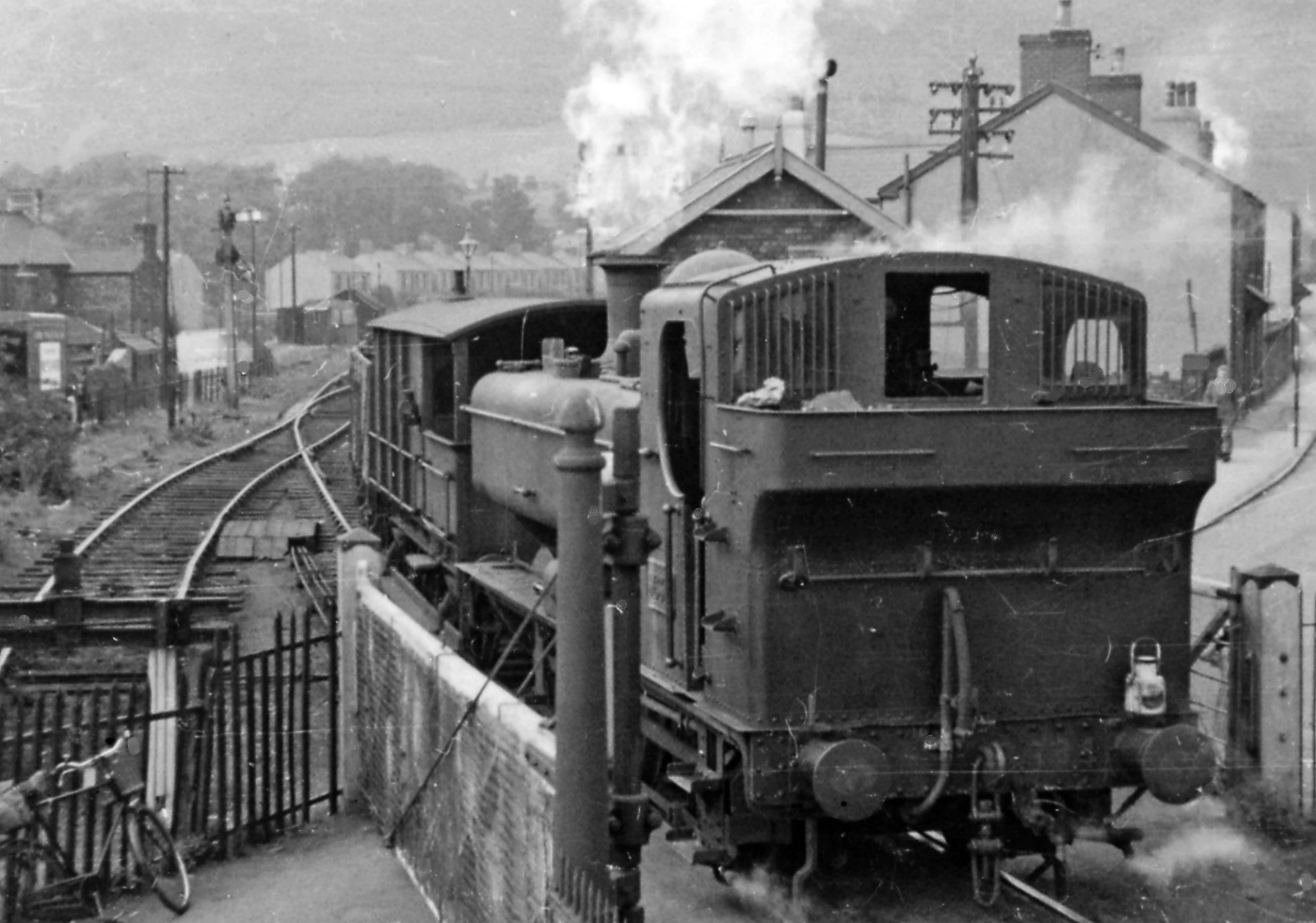 Ex-GW '8750' 0-6-0 pannier tank banking an empties train at Duffryn Junction up towards Maesteg. View NE up the Cwm Duffryn valley on the ex-Port Talbot Railway line - at 1-in-40 - to Maesteg and Pontyrhyll, which was closed to passengers on 11/9/33, to goods on 31/8/64. The banker is Collett '8750' class 0-6-0PT No. 9634 (built 1/46, withdrawn 5/64).